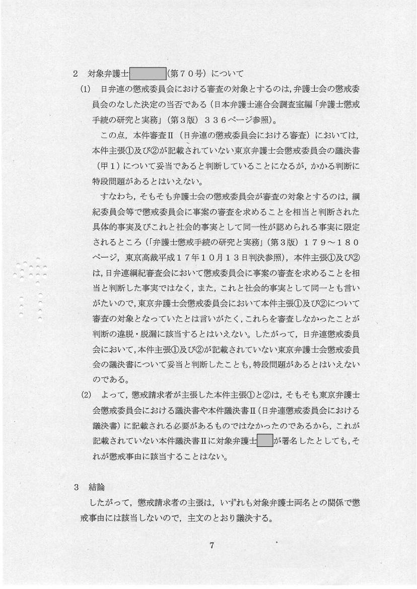 "There is no omission in judicial decision or in determination in Japan Federation Bar Association Disciplinary Enforcement Committee that didn't examine facts or allegations which a local bar association hadn't examine."